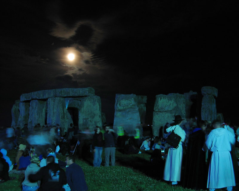 A group of druids in white robes watch the moon set behind Stonehenge on the eve of the summer solstice. Keywords: Summer Solstice, Stonehenge, King's Drummers, Druids, parade, torch light.